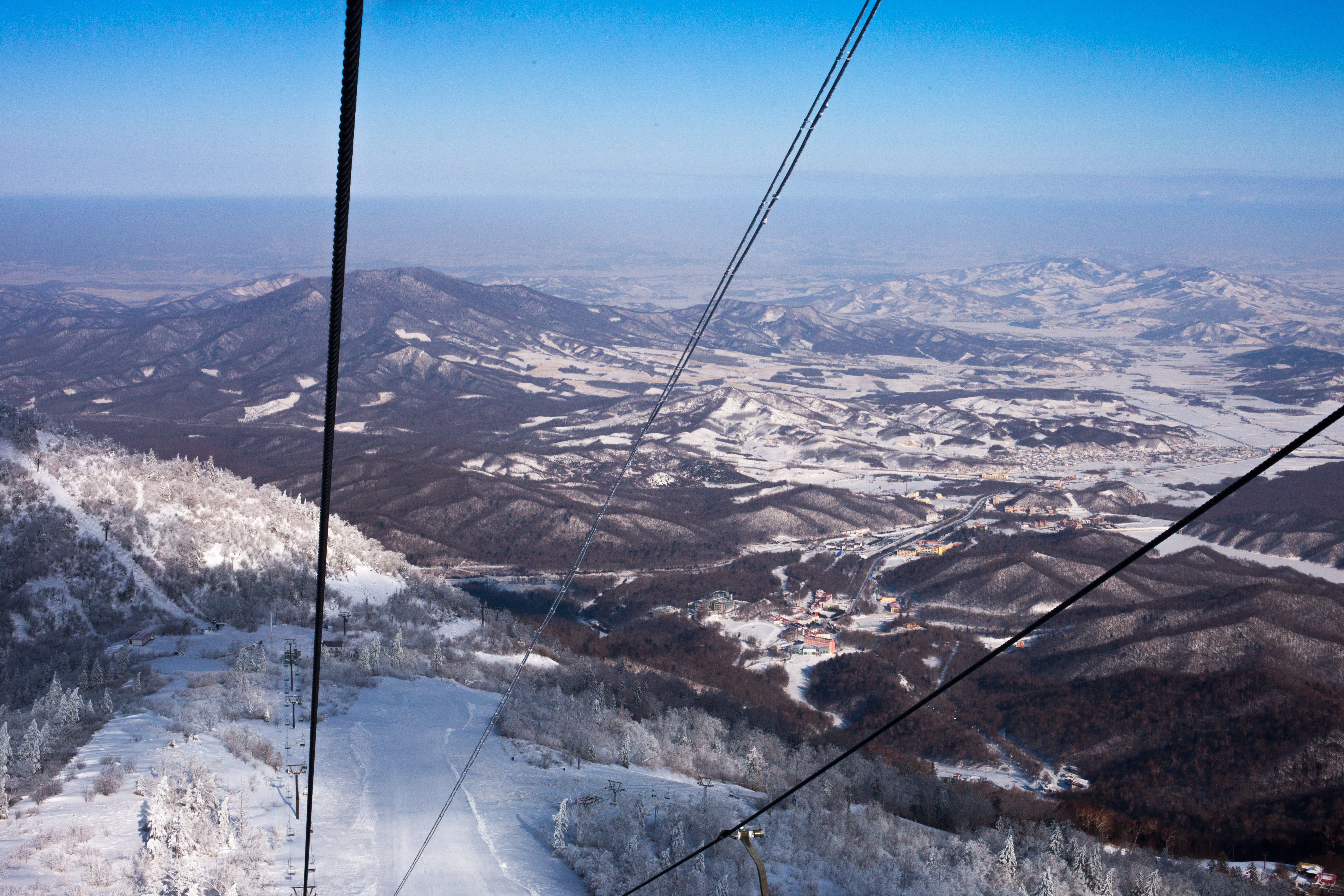 Riding the 2-person chair lift down from the highest peak Yabuli Ski Resort.